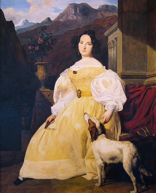 wife of H. de Balsac